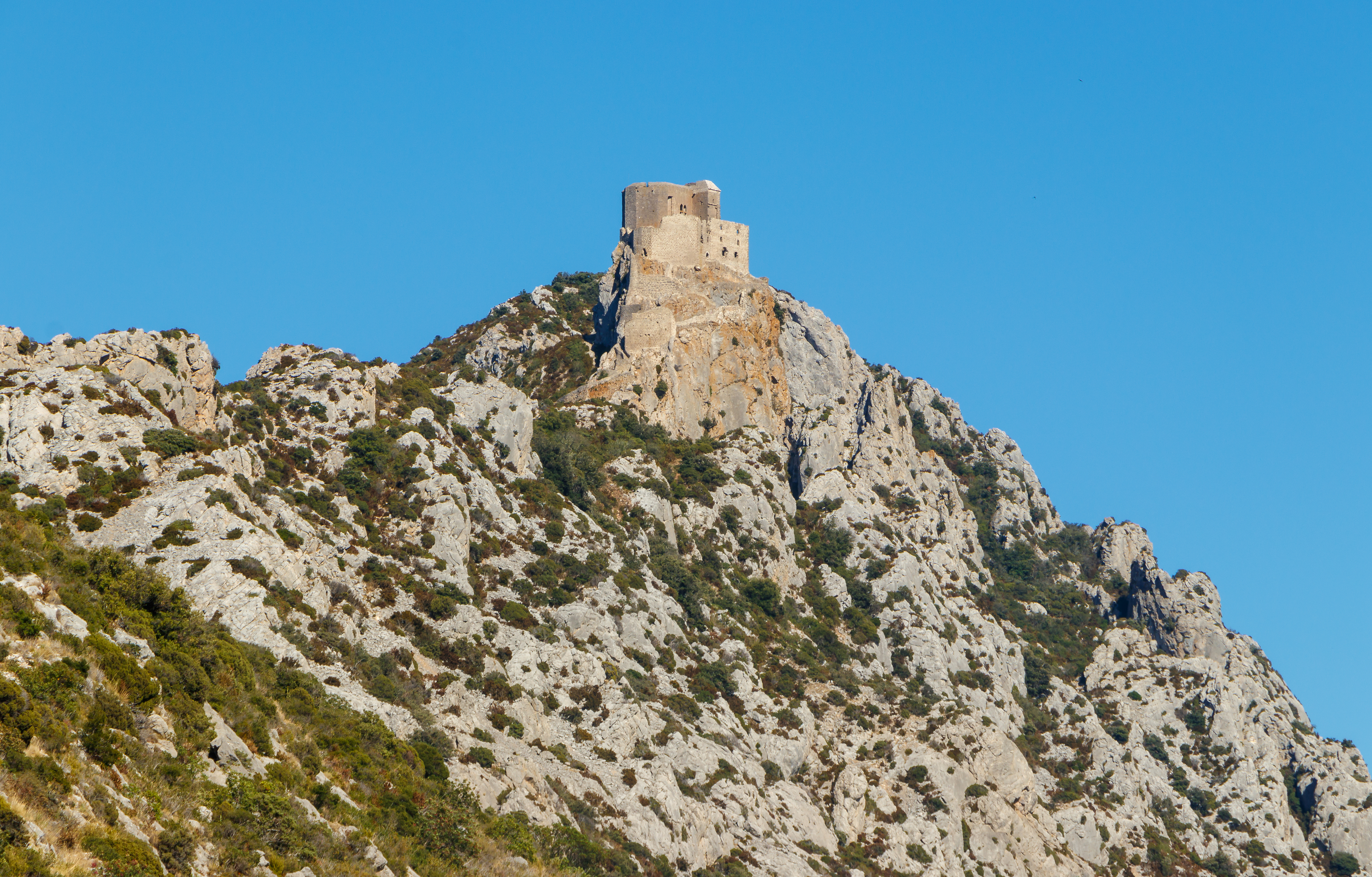 Château de Quéribus, Cucugnan, Département Aude, France